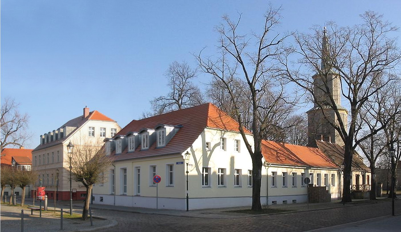 Market place and church St. Andreas (oldest parts from 12th century) in Teltow. The town Teltow belongs to the district Potsdam-Mittelmark in the state Brandenburg, Germany, and borders to the south of Berlin.